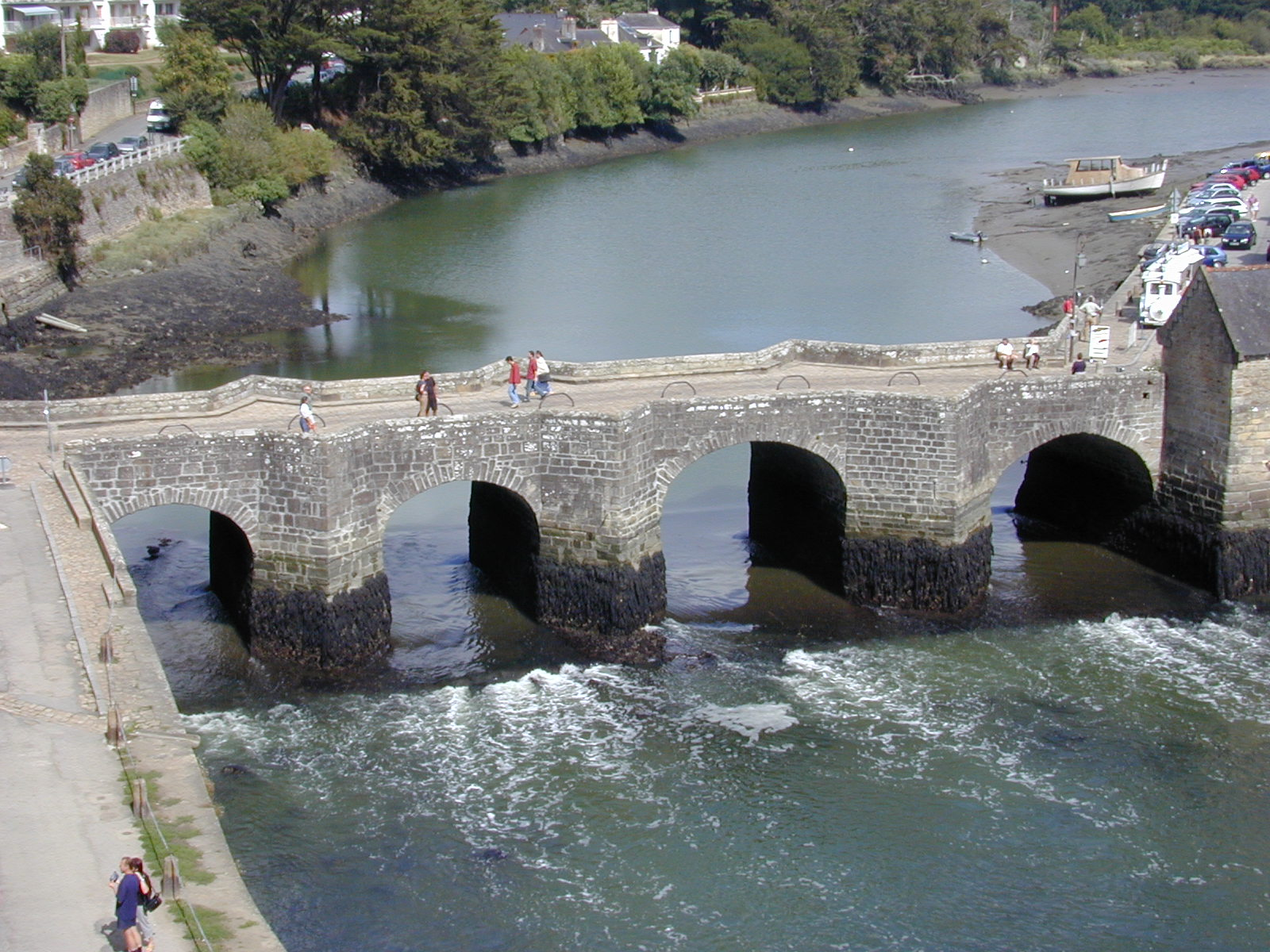 Auray bridge. August 2002, by William M. Connolley.